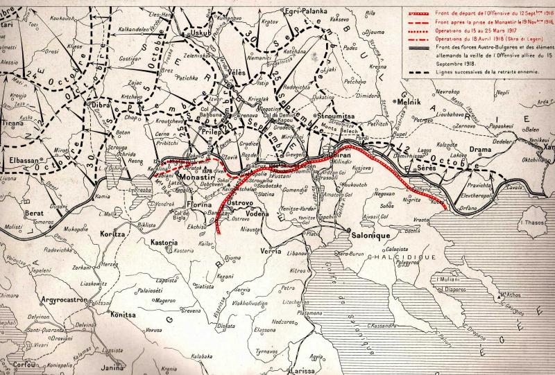 Salonika Front WW1